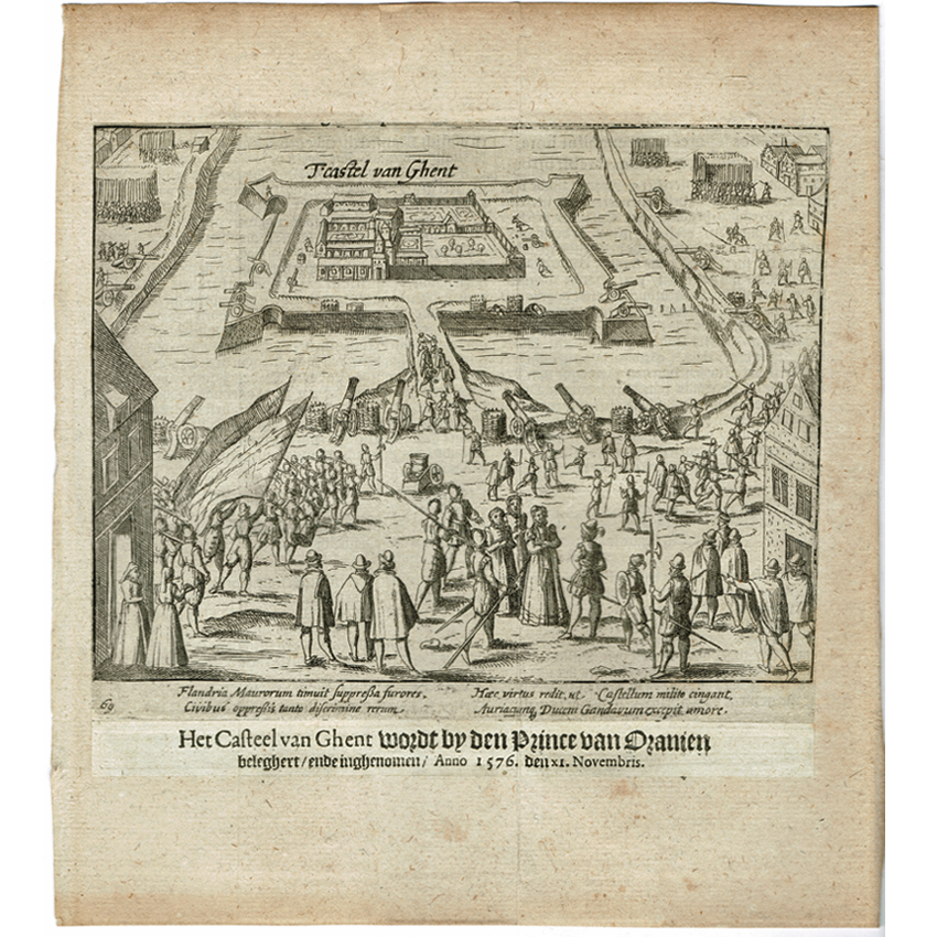 Print from 'The Wars of Nassau' by G. Baudartius, published in Amsterdam by M. Colin de Thovoyon in 1616. Subject: The Prince of Orange seizes the 'Spanish Castle' in Gent on 11 November 1576.